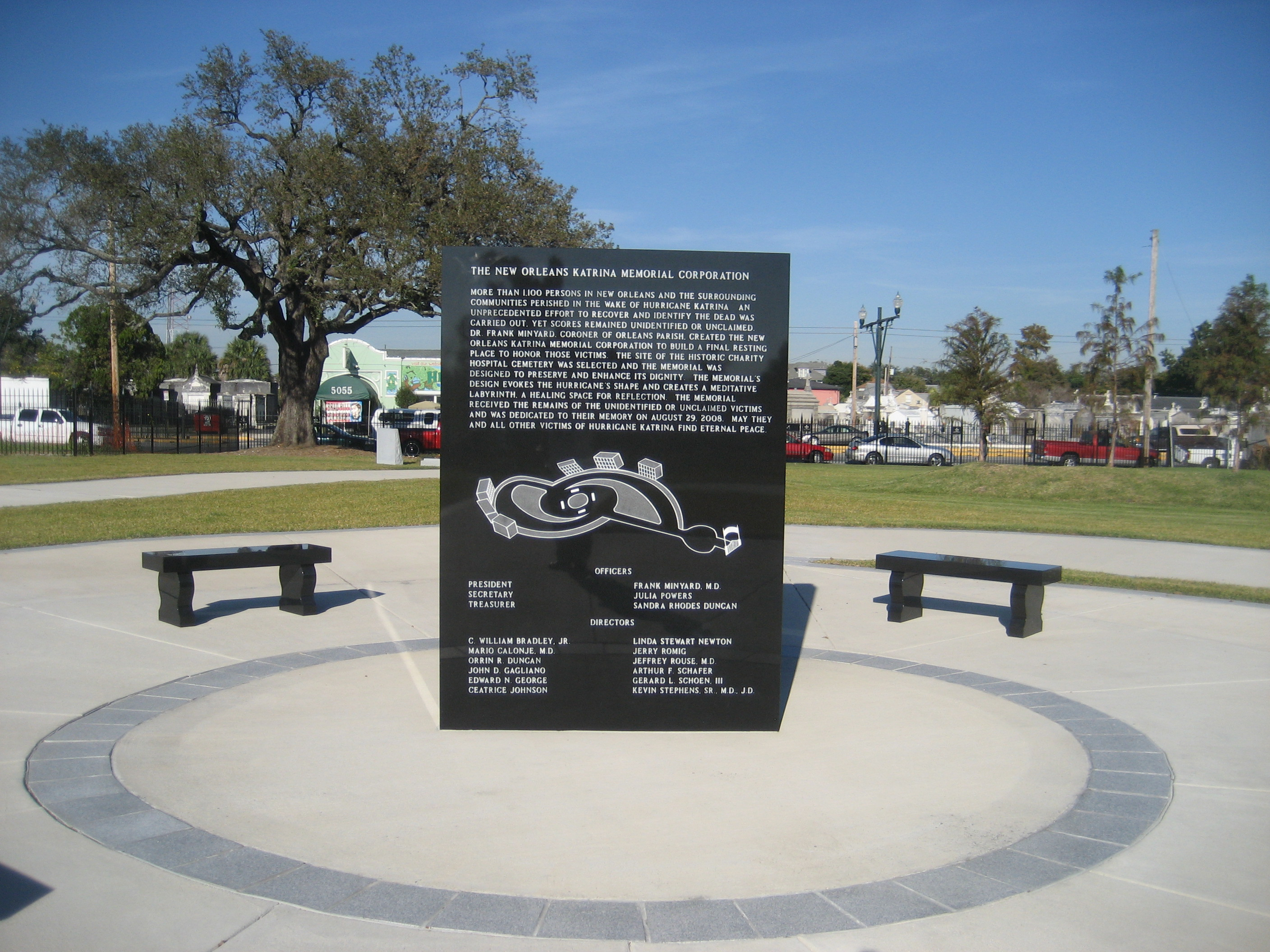 New Orleans: Tomb monument for unidentified corpses from the dead of the Hurricane Katrina levee failure disaster of 2005. Old Charity Hospital Cemetery, at end of Canal Street.